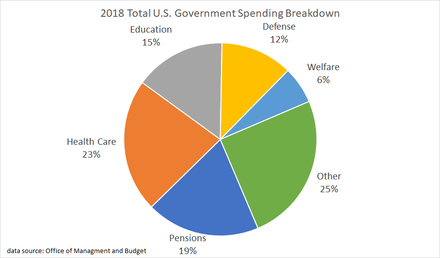 A breakdown of 2018 Total US Government Spending using date from the Office of Management and Budget